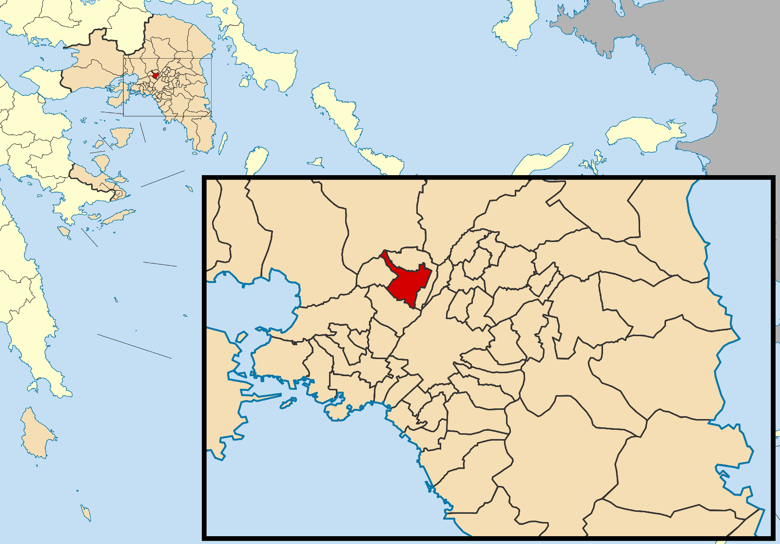 Locator map for Ilio municipality in Greek region Attica (2011)